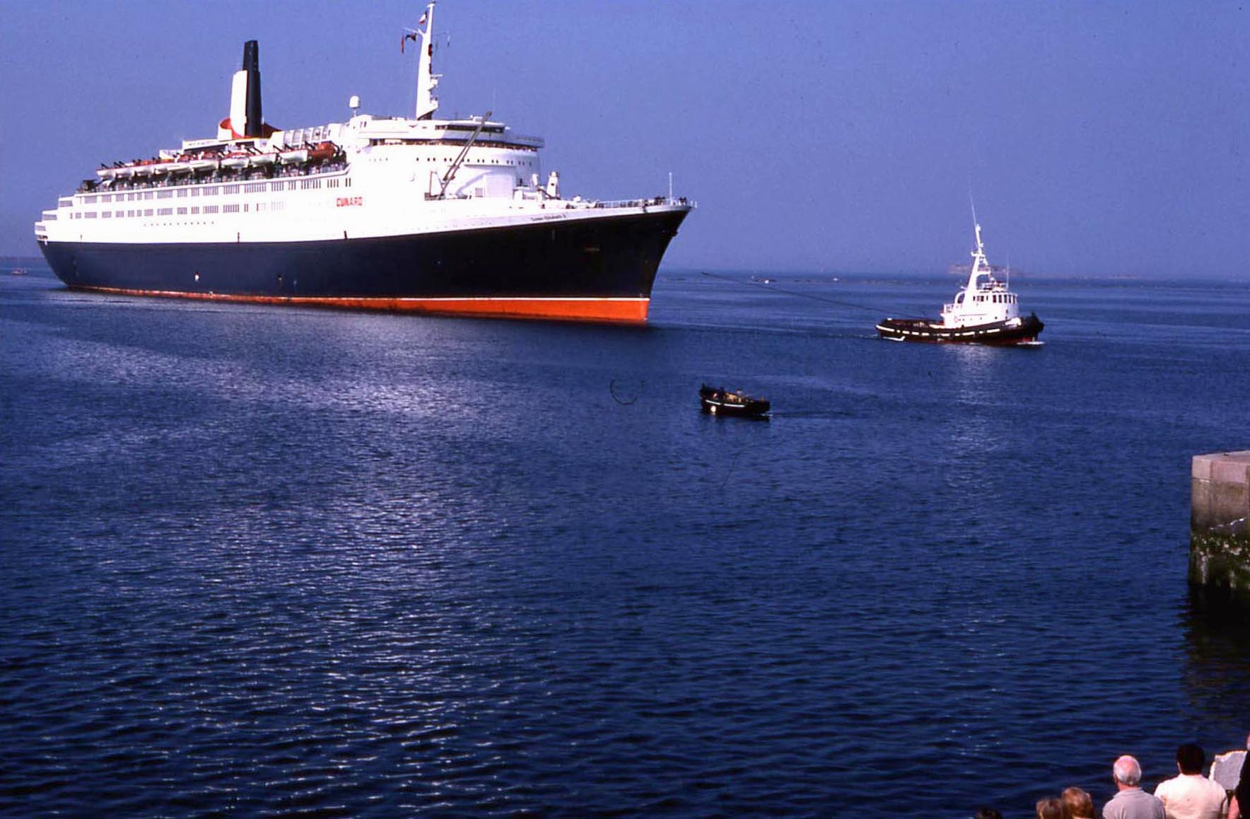 RMS Queen Elizabeth 2 in Cherbourg (Normandy, France) in juin 1972.